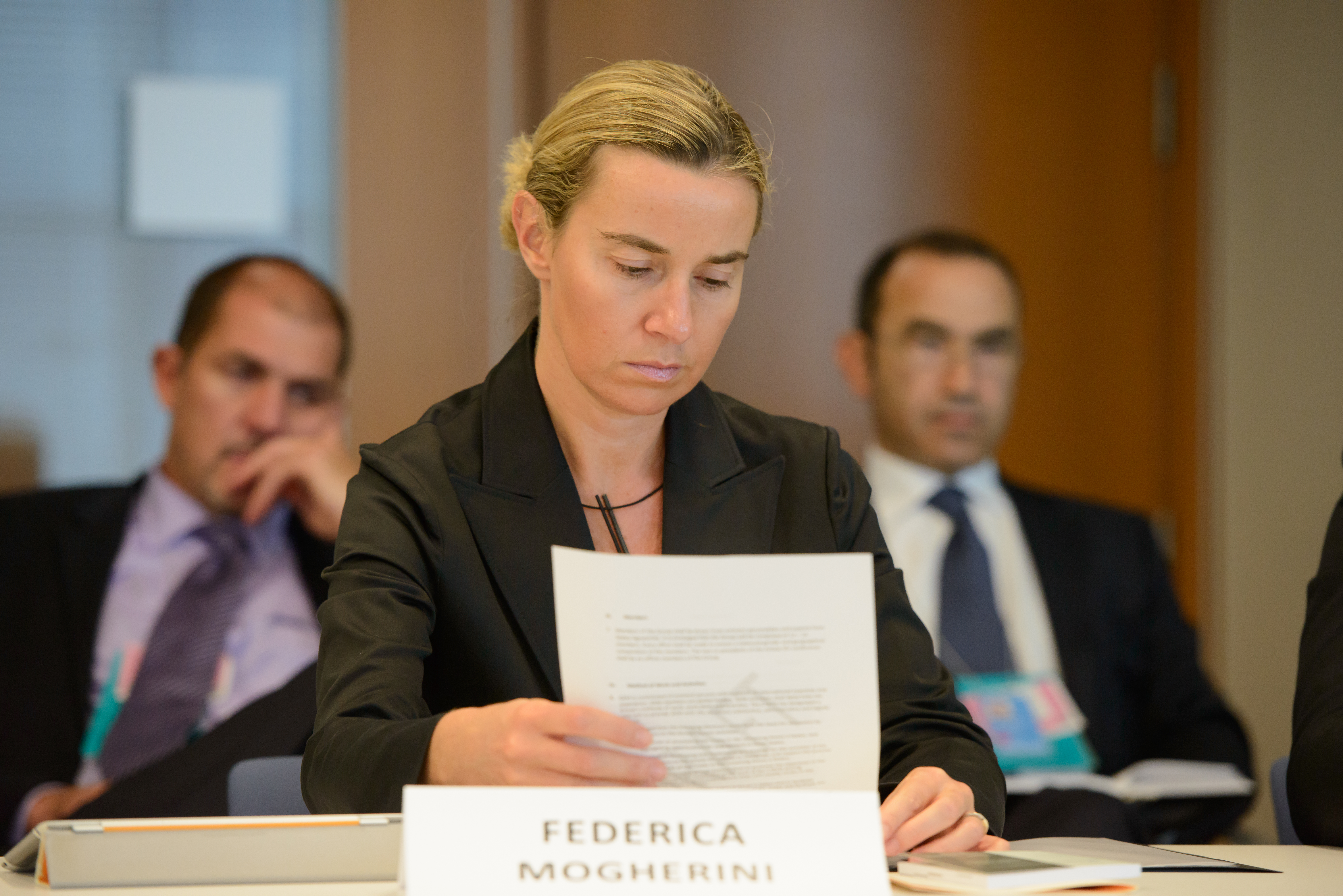 Federica Mogherini, President of the Italian delegation to the NATO Parliamentary Assembly and a member of the Group of Eminent Persons (GEM)